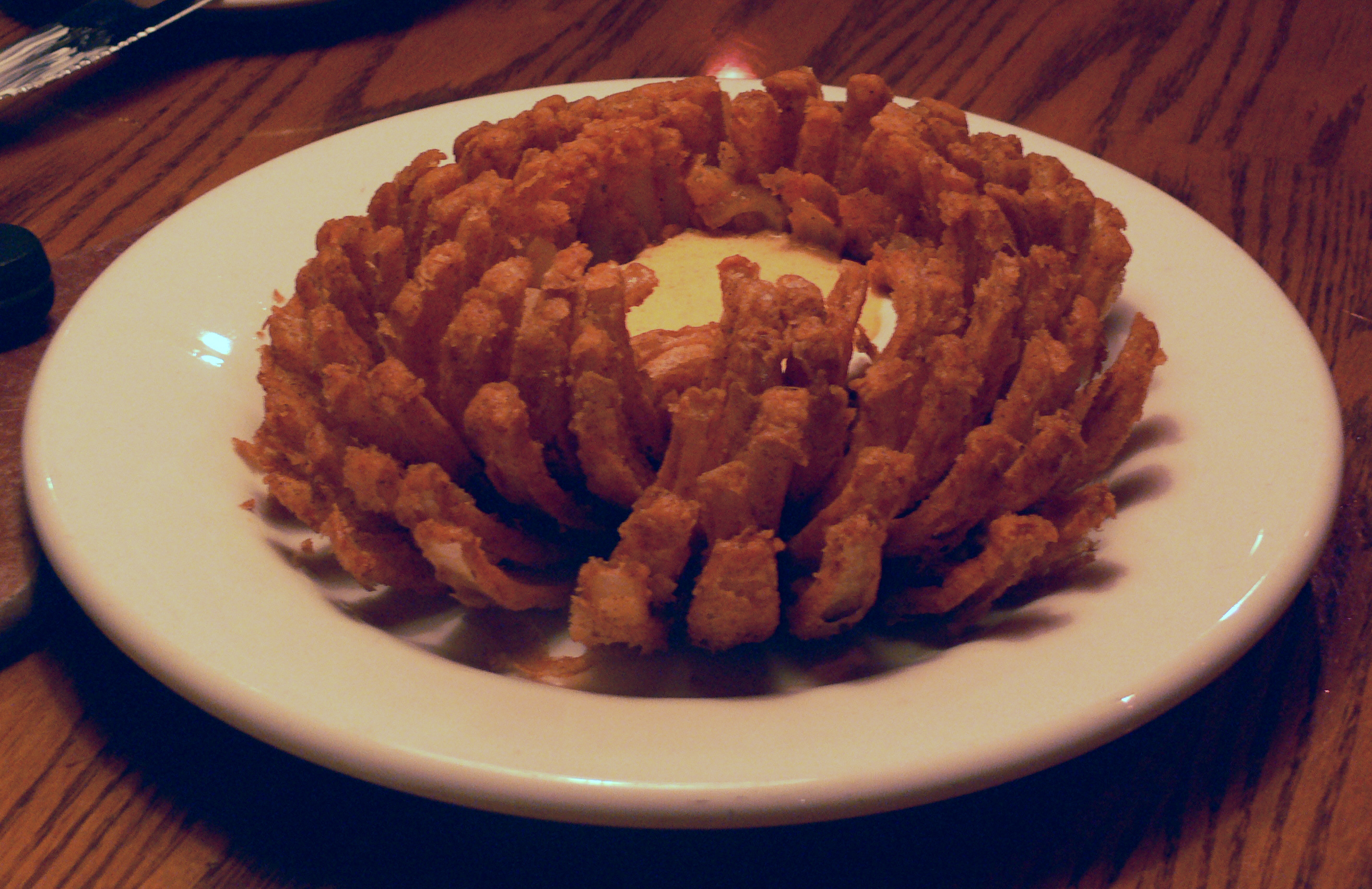 Onion bloom as served in a Dallas restaurant